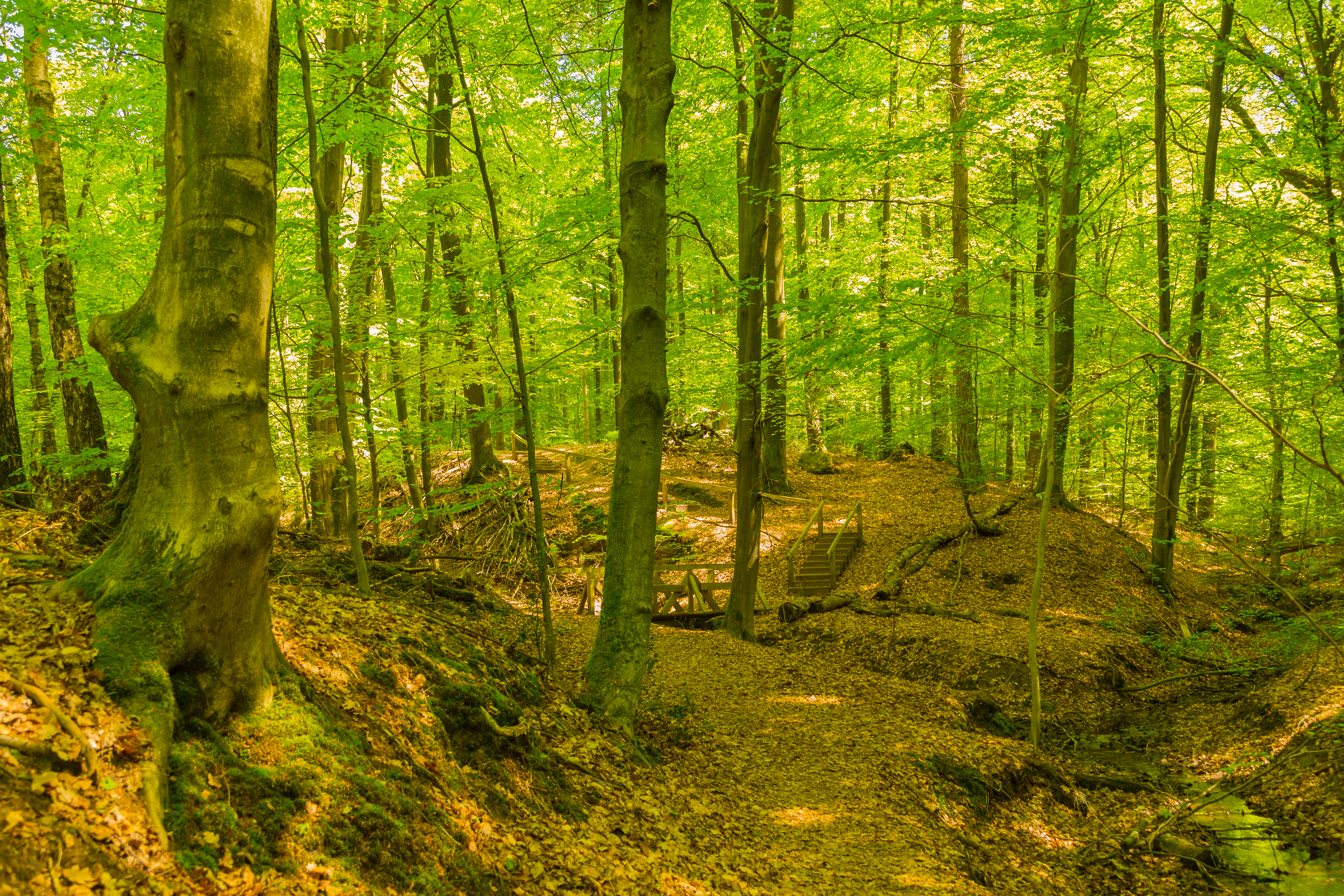 On the hiking trail Hünenweg through Maiburg forest near Bippen, Samtgemeinde Fürstenau, Landkreis Osnabrück, Lower Saxony, Germany. This part belongs to the nature reserve of the same name (Naturschutzgebiet Maiburg).